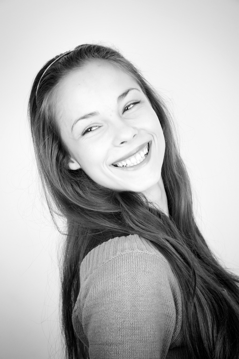 Prima ballerina of the Serbian National Theatre Srpski (latinica): Prvakinja Baleta Srpskog narodnog pozorišta Српски (ћирилица): Првакиња Балета Српског народног позоришта